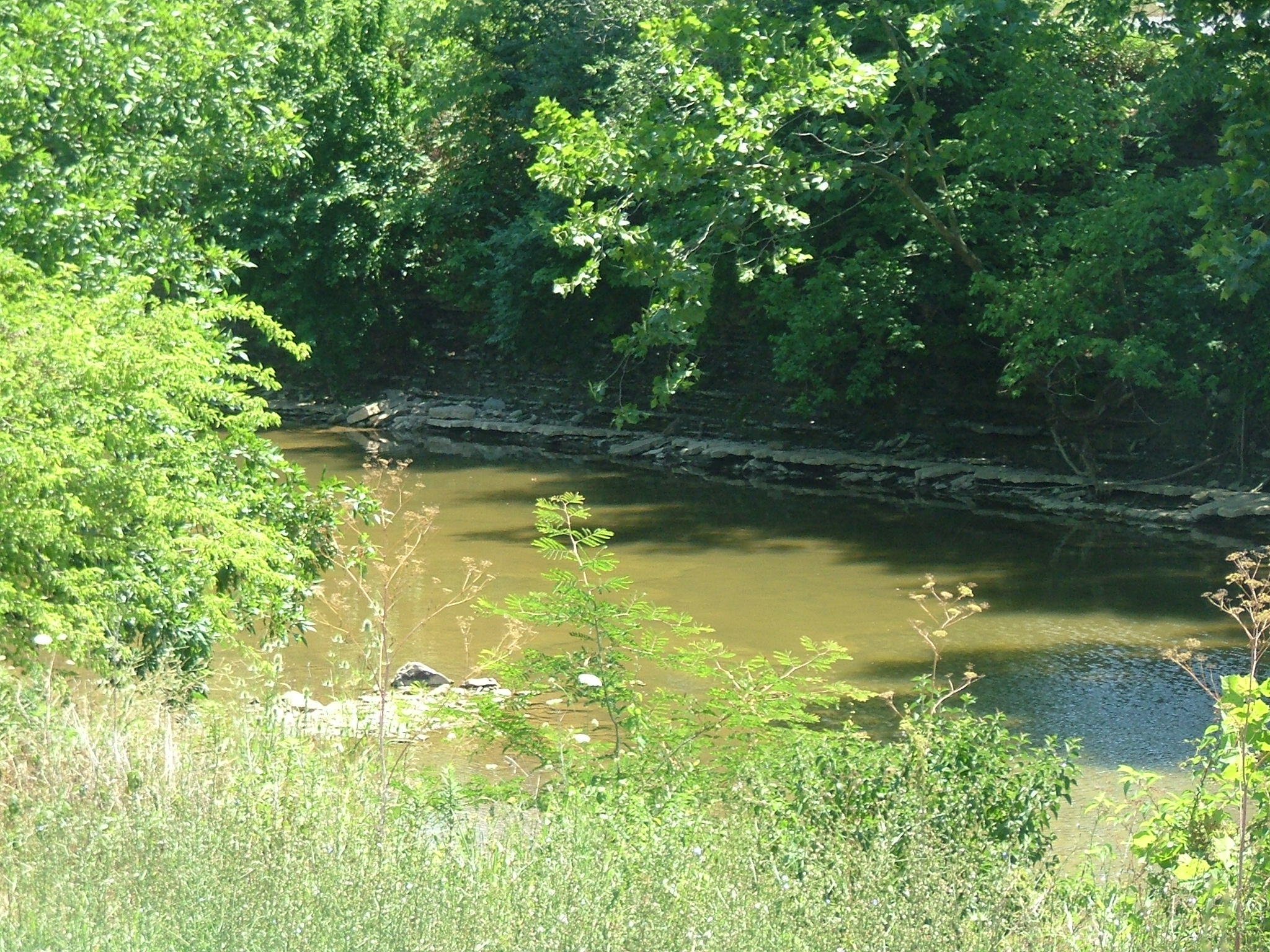 Silver Creek in Kentucky from SR 876 near Richmond, KY